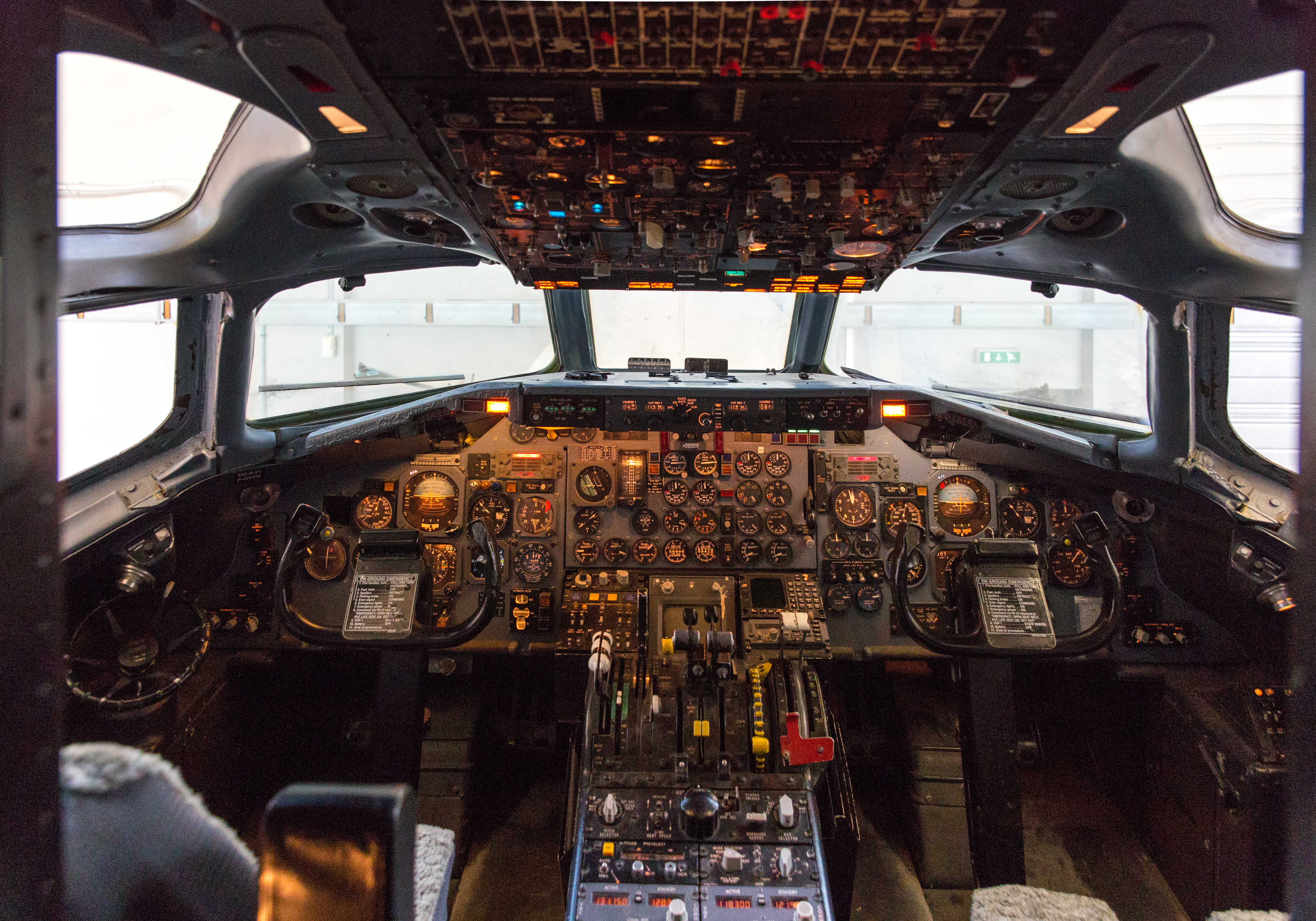 Cockpit DC-9-15 F-GVTH